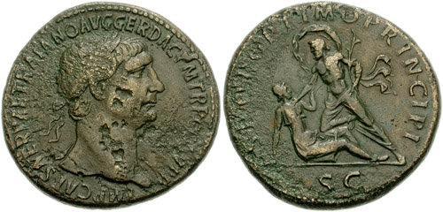 TRAJAN. 98-117 AD. Æ Sestertius (34mm, 23.87 gm). Struck circa 104-107 AD. IMP CAES NER TRAIANO AUG GER DAC PM TRP COS V PP, Laureate bust right, drapery on far shoulder SPQR OPTIMO PRINCIPI, The Tiber standing left, placing knee on Dacia, whom he forces to the ground. RIC II 556; BMCRE 793 note; Cohen 526.